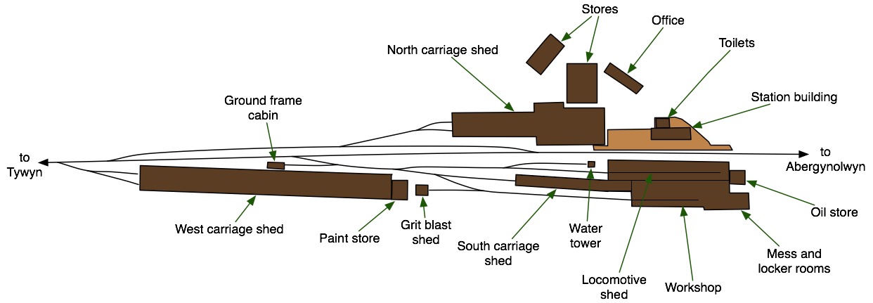 Based on exsiting file 1 updated and published seperately as original is unupdatable